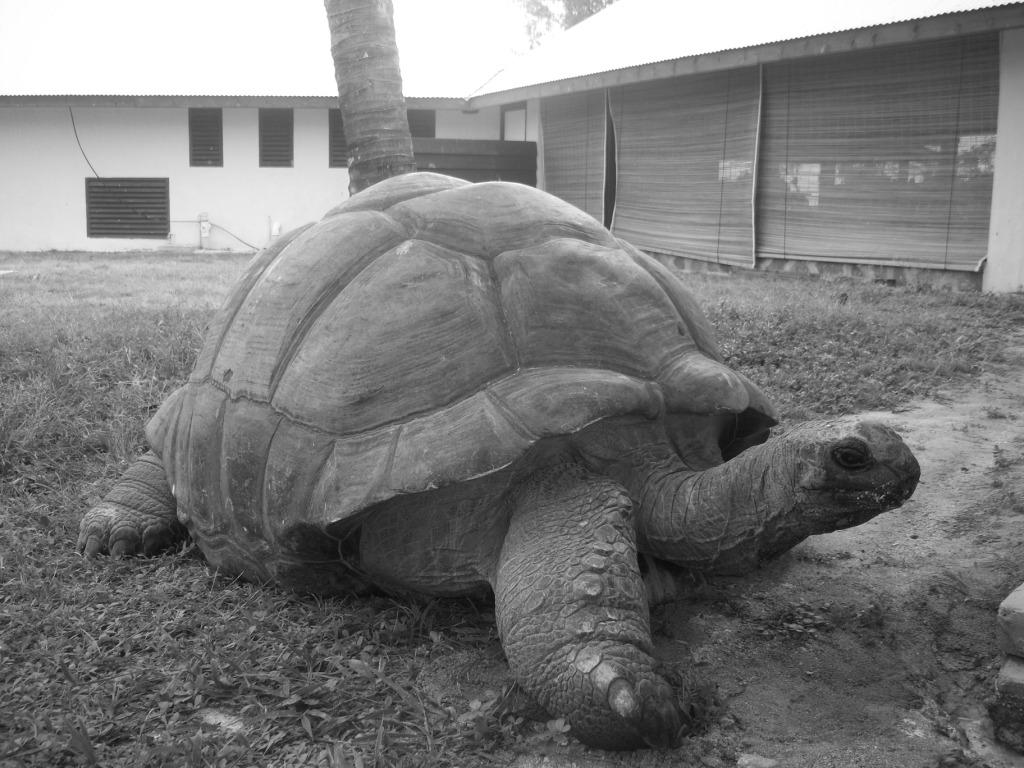 Esmeralda, the world's oldest living Aldabra Giant Tortoise at Bird Island in Seychelles